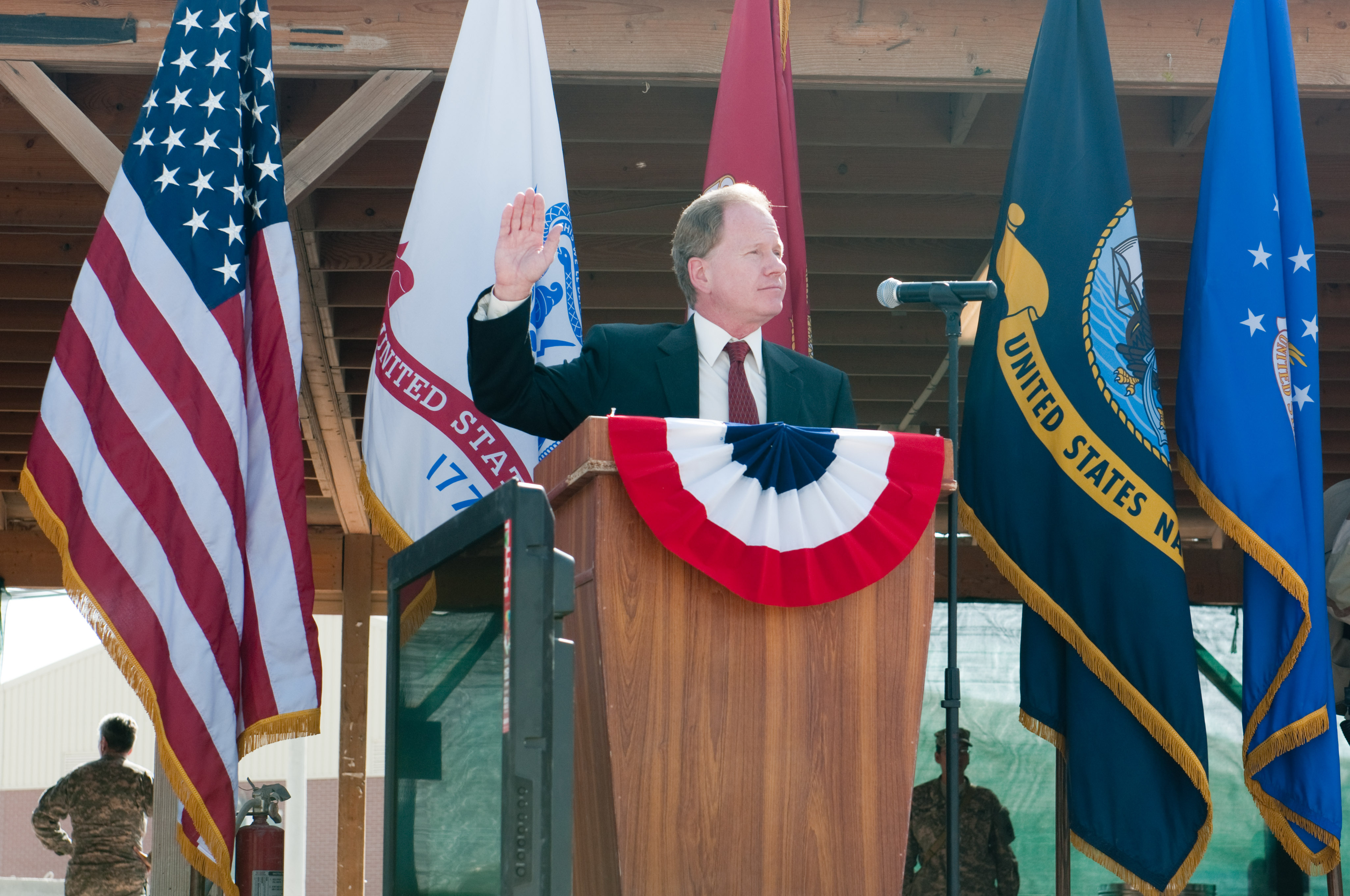 Steve Bucher, deputy associate director of Refugee, Asylum and International Operations of the United States Citizenship and Immigration Services, administers the Oath of Allegiance to 88 servicemembers during a naturalization ceremony on Kandahar Airfield, Afghanistan.